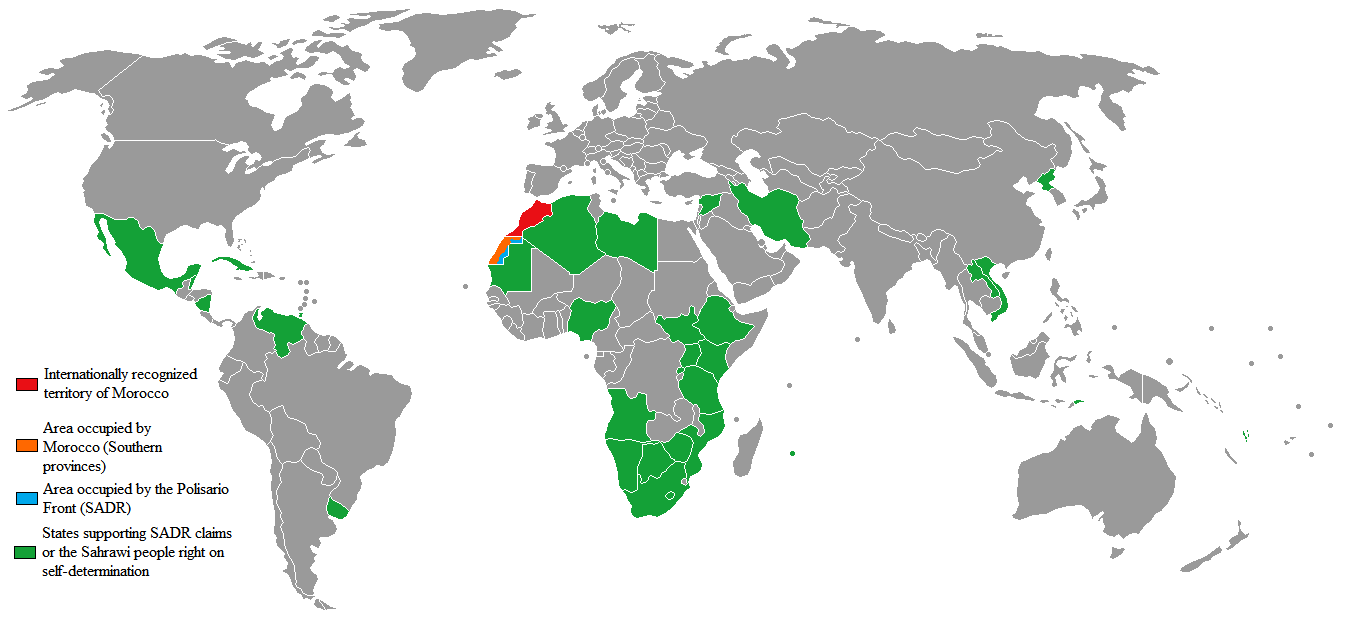 States supporting SADR claims or the Sahrawi people's right to self-determination.